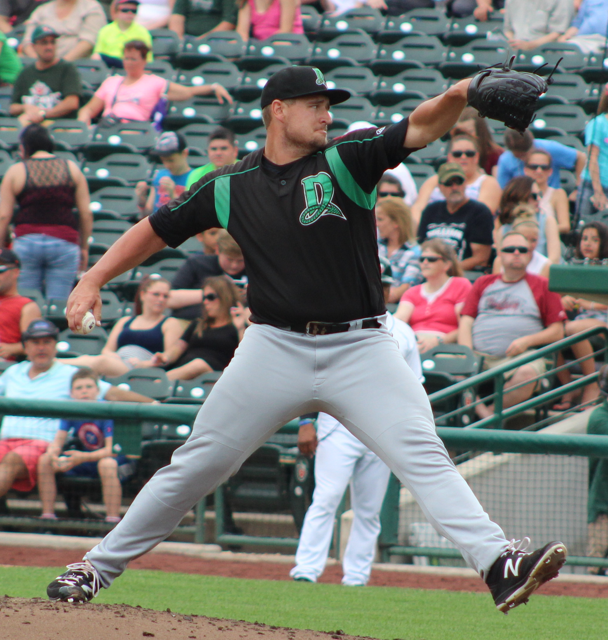 Joel Kuhnel delivers a pitch for the Dayton Dragons during a 2017 game at Parkview Field in Fort Wayne, Indiana